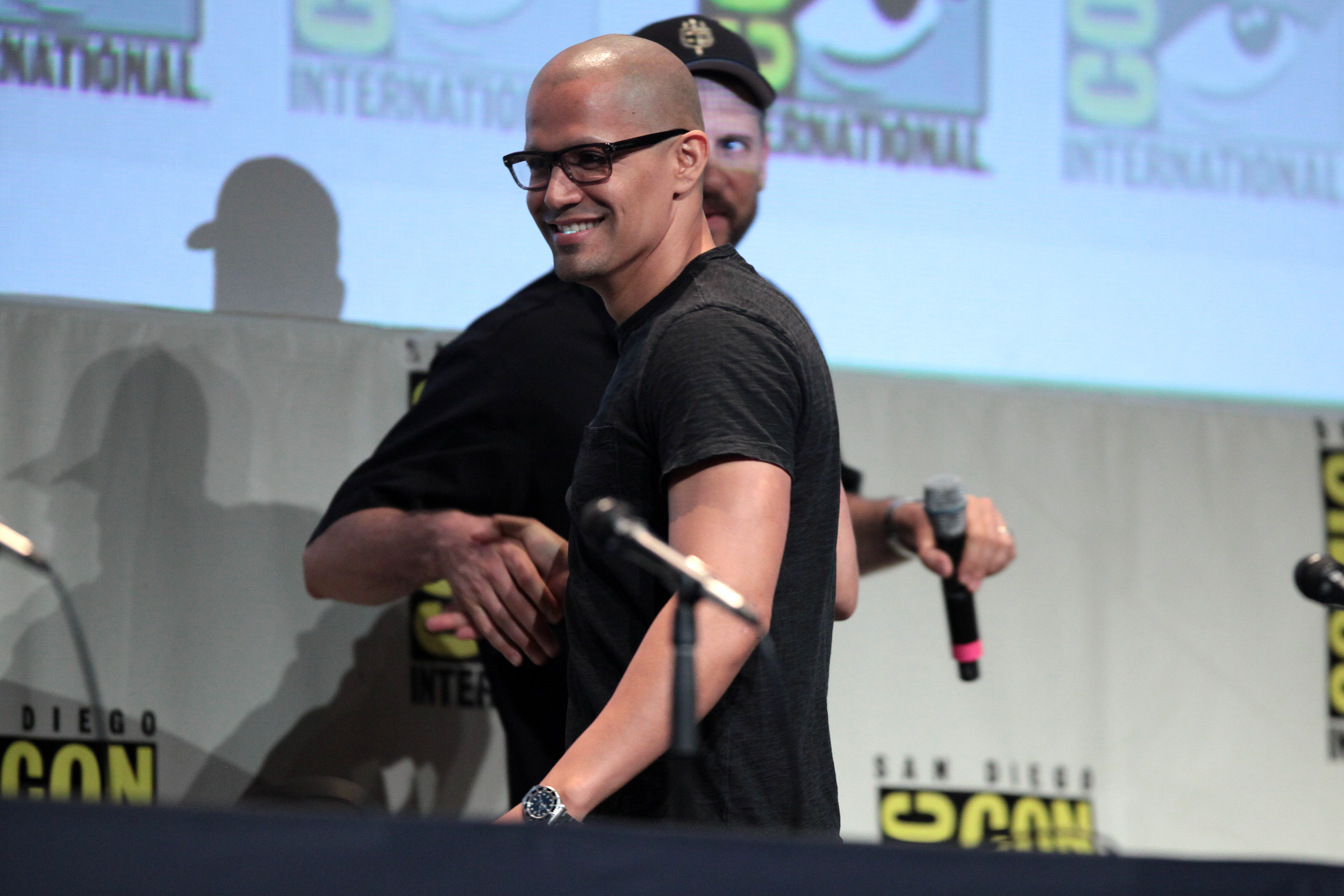 Jay Hernandez speaking at the 2015 San Diego Comic Con International, for "Suicide Squad", at the San Diego Convention Center in San Diego, California.